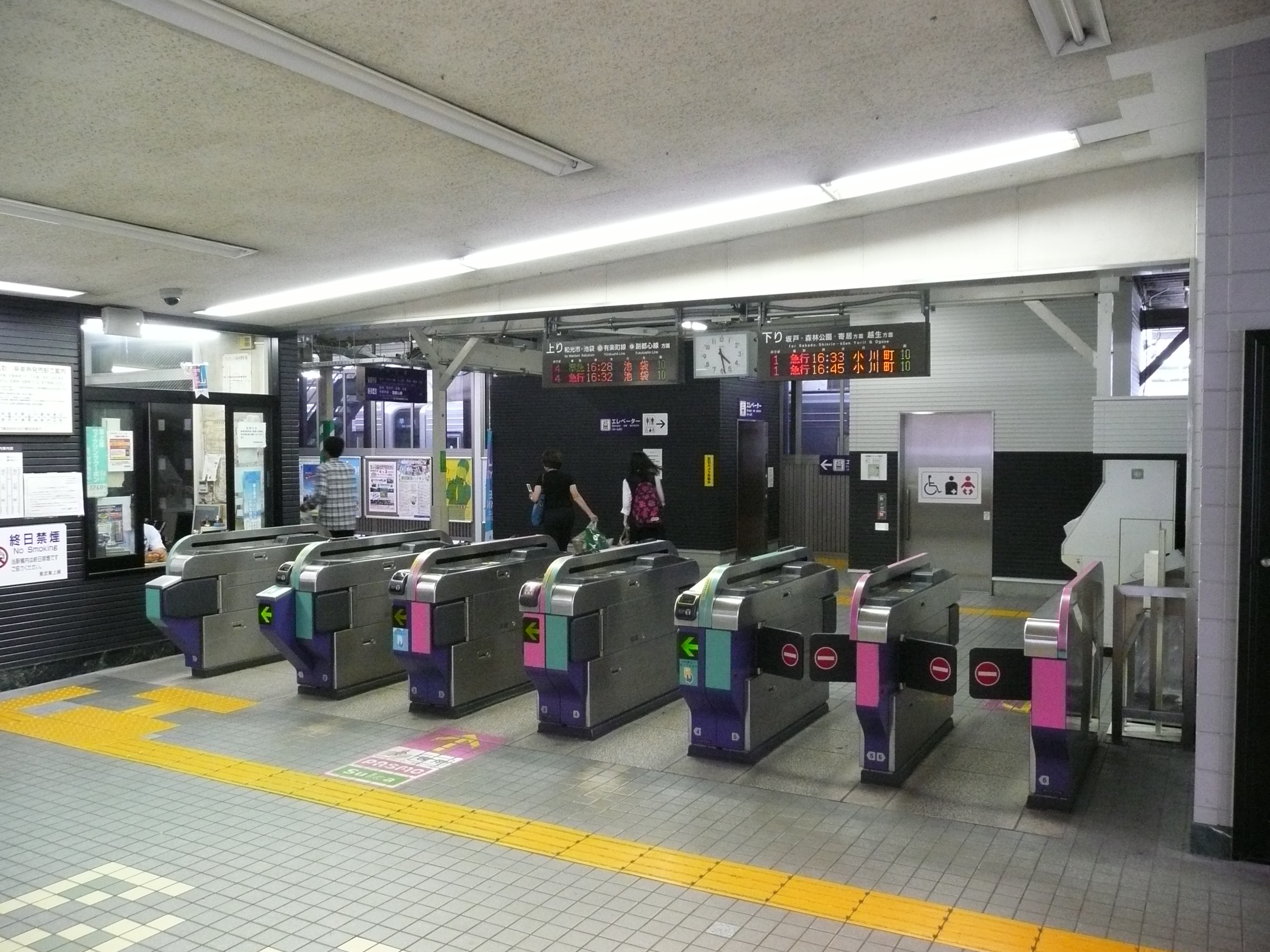 The ticket gates at Kawagoeshi Station on the Tobu Tojo Line